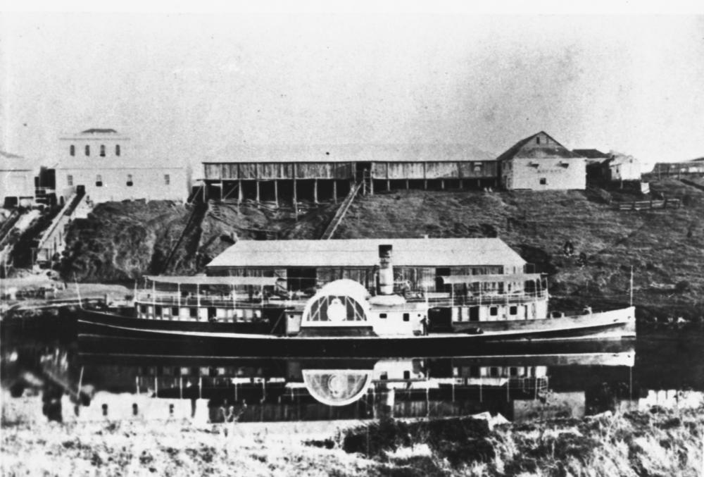 Large paddlesteamer docked at the Ipswich wharves, ca. 1870